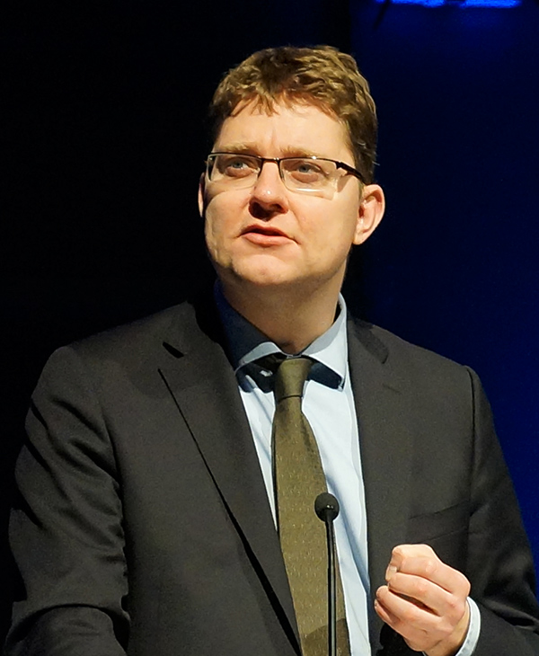 Rasmus Helveg Petersen - Danish politician, member of the Danish Folketing for Danish Social Liberal Party, Minister of Development (2013-14) and Minister of Climate, Energy and Building (from 2014) - from the European Wind Energy Association offshore event "EWEA Offshore 2015" in Copenhagen, Denmark, March 2015